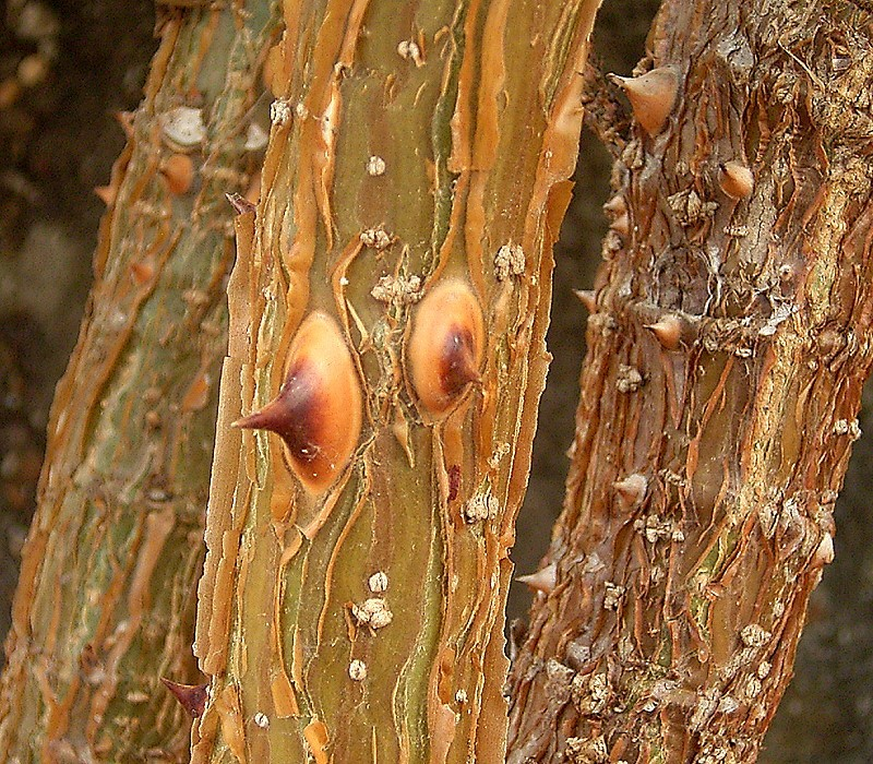 Erythrina lysistemon